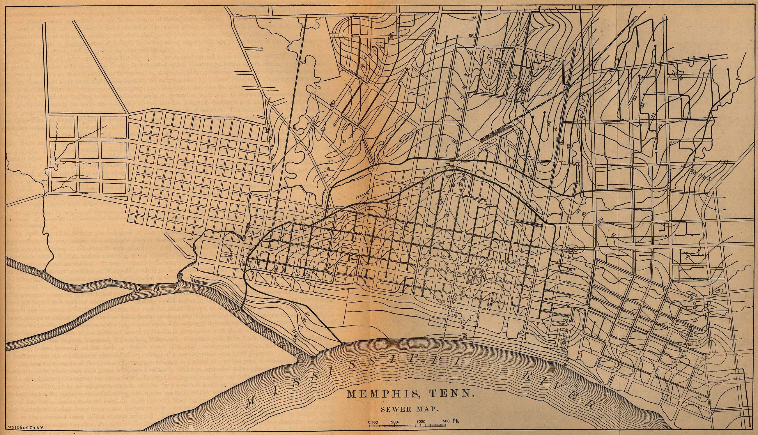 Map of the Memphis sewer system in 1880, originally listed at